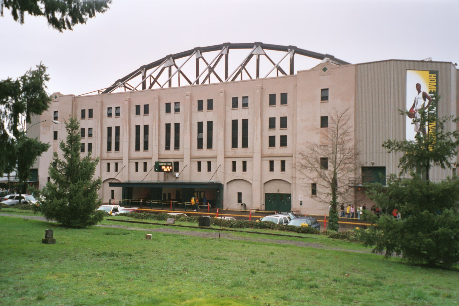 McArthur Court, January, 2006 Photo by myself